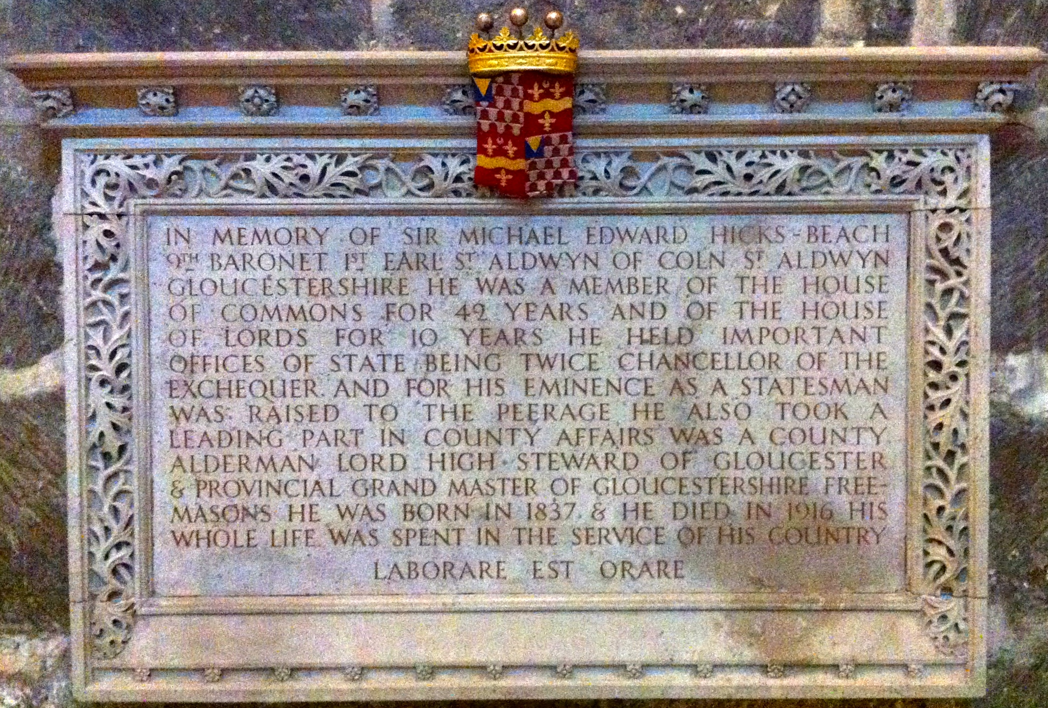 Sir Michael Edward Hicks Beach, 9th Baronet, 1st Earl St Aldwyn of Coln St Aldwyn